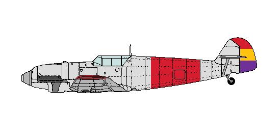 Messerschmitt Bf109B Captured by the Spanish Republican Air Force in Bujaraloz, Aragon, in 1938. It was later sent to the USSR for evaluation.